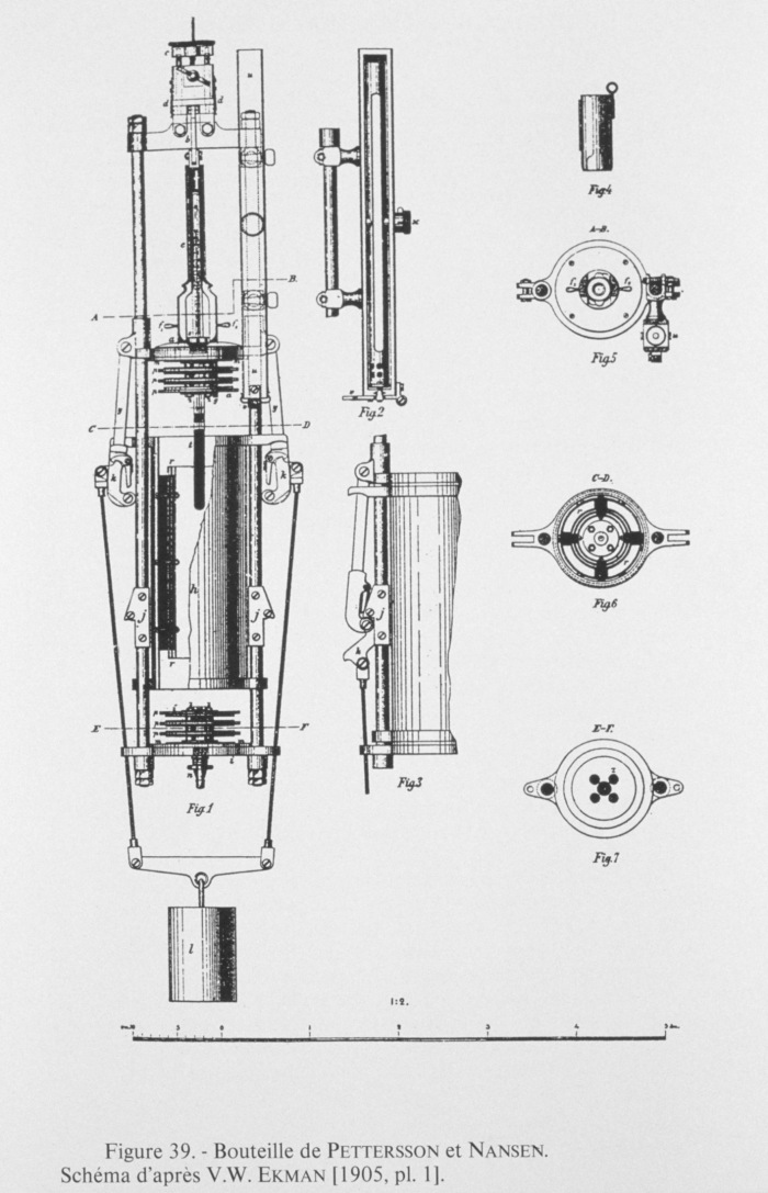 Schematic drawing of Pettersson and Nansen bottle as shown by V. W. Ekman in 1905. This bottle is used for sea water temperature sampling.